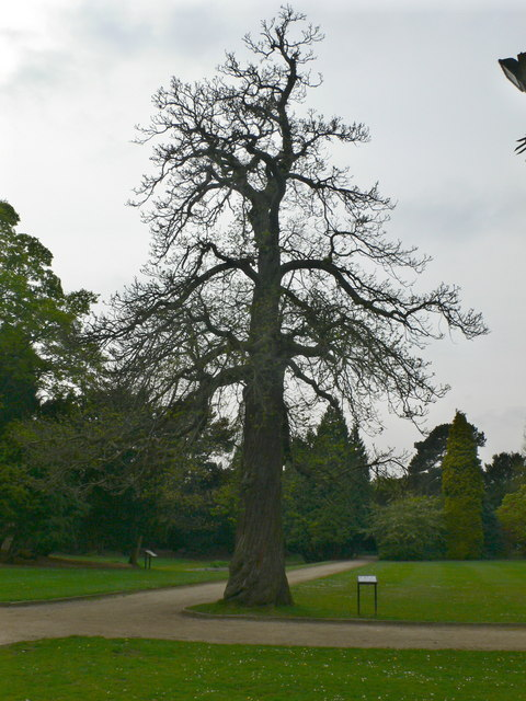 Sweet Chestnut Tree, Wythenshawe Park